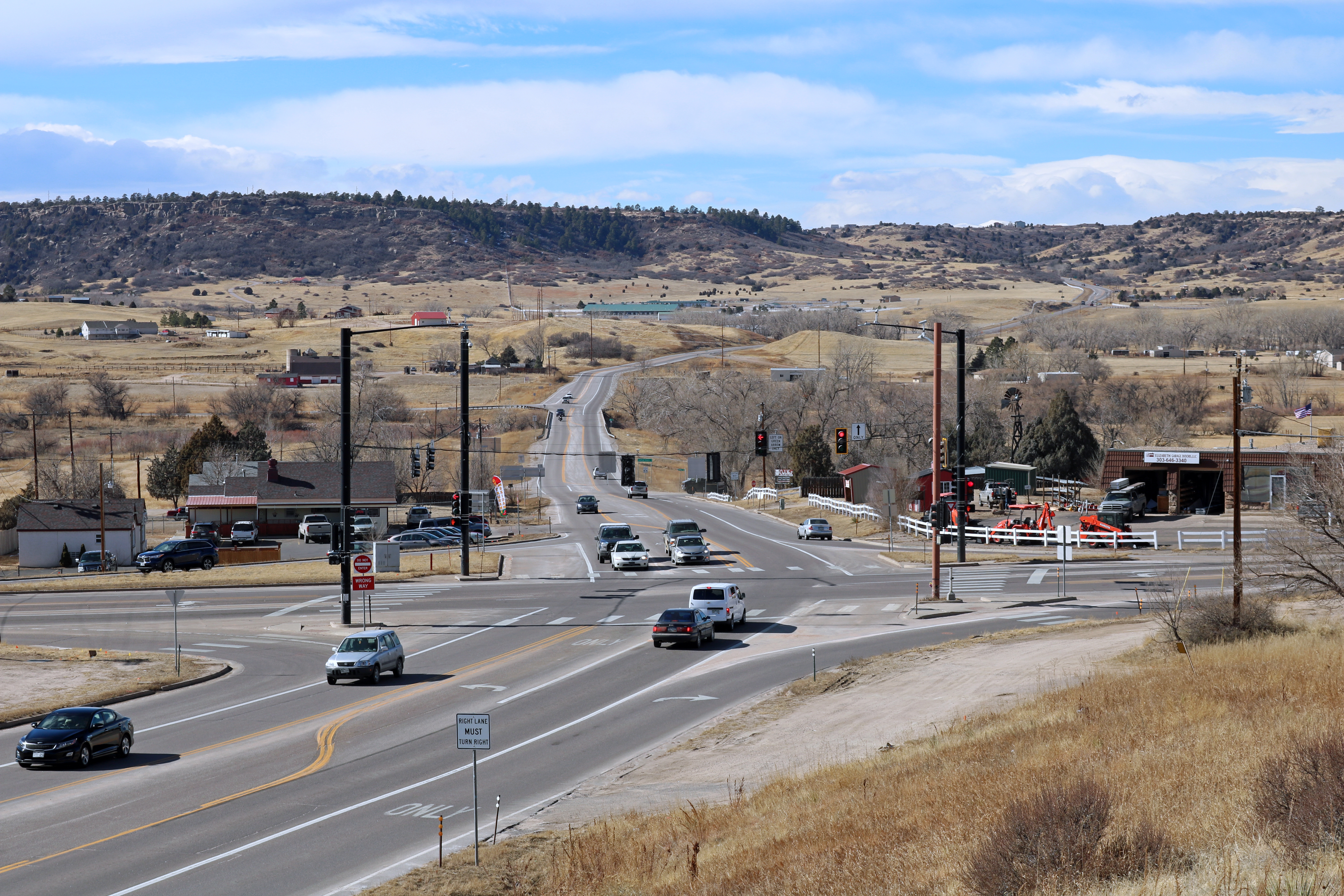 A view of Franktown, Colorado. The highway that goes left to right is Colorado State Highway 83. The highway that appears in the lower left-hand corner and goes towards the top of the photo is Colorado State Highway 86. Franktown is in Douglas County.